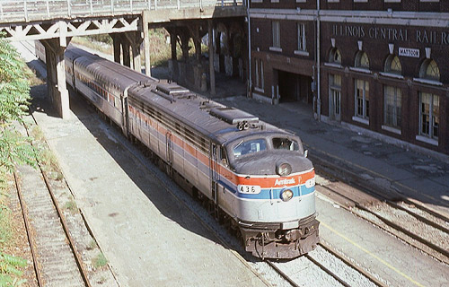 The southbound Shawnee at Mattoon station in February 1976